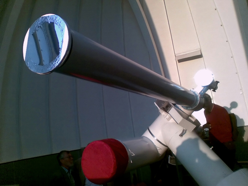 Telescope of the Urania Observatory, Vienna, Austria. The instrument consists of a 150mm f/20 Refractor and a 300mm f/18 Cassegrain-Reflector on a common mount. In this view, the Reafractor and the finder are equipped with solar filters, while the aperture of the Reflector is covered with a red lens cap.